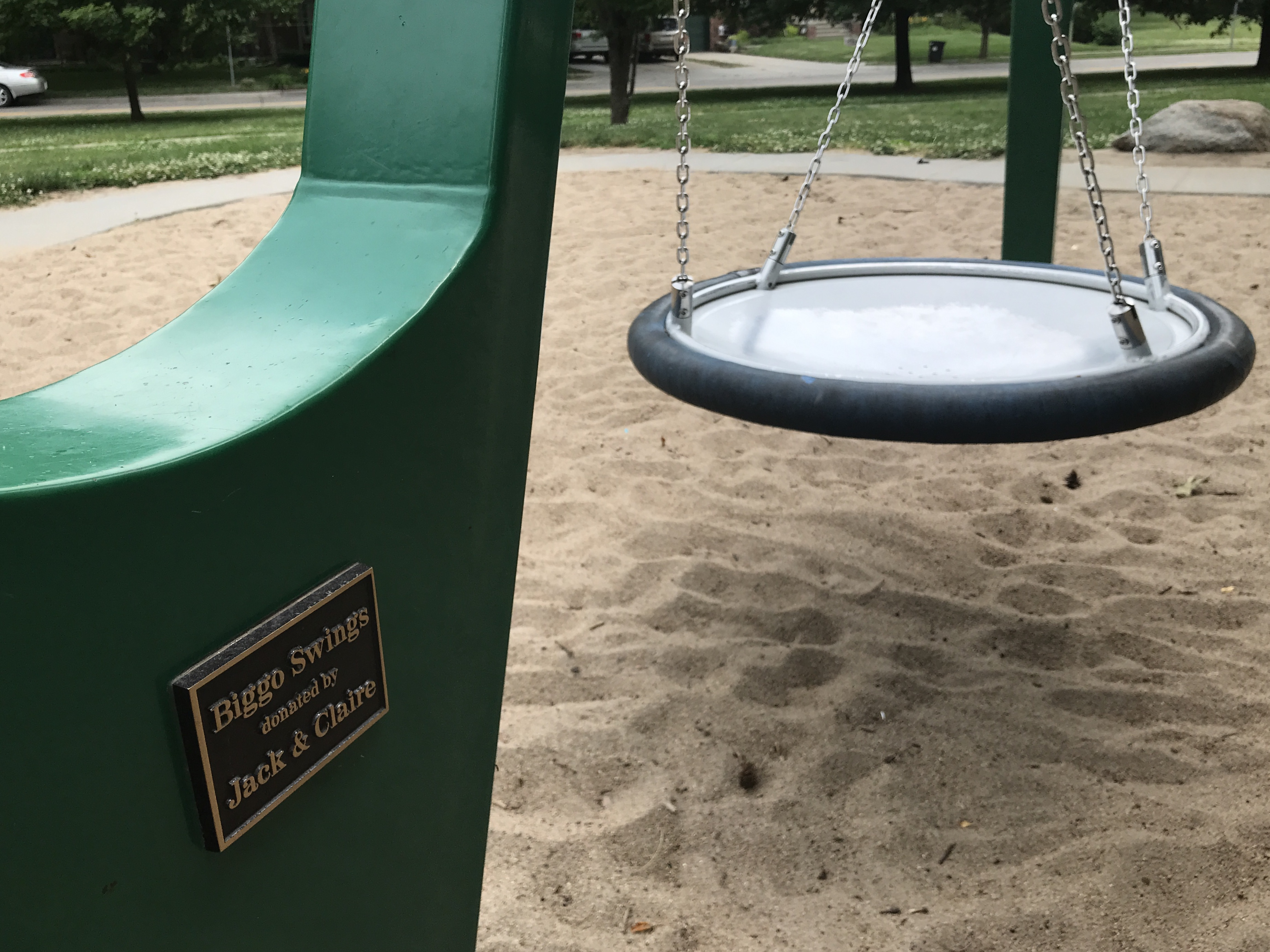 A Biggo brand swing is pictured (a round swing with an inner saucer) with a plaque saying it was donated by Jack and Claire.